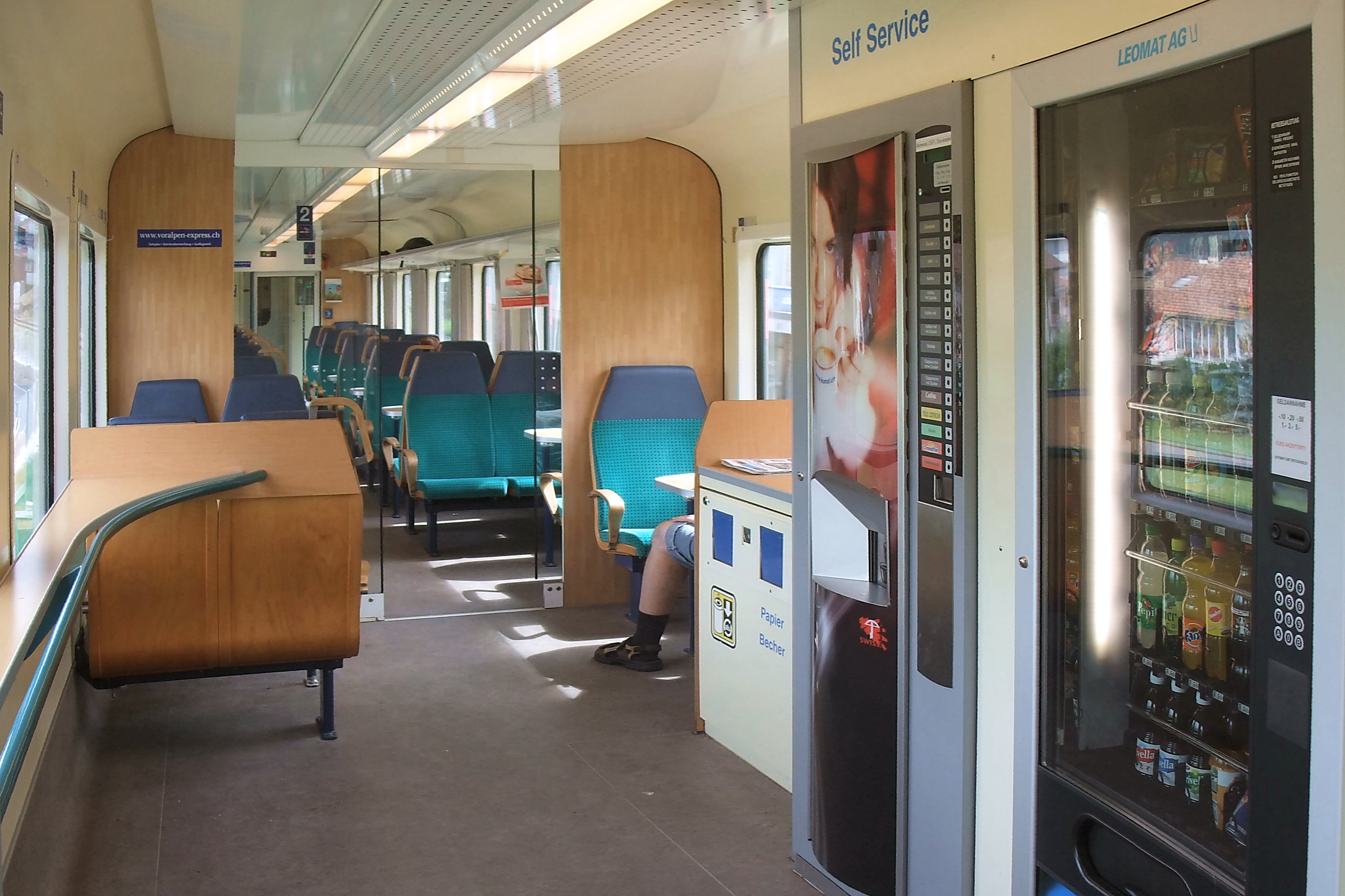 The buffet car of the Pre-Alps-Express is not a real restaurant car. In the entry area there are two vending machines. The waste must be disposed of itself. This train runs hourly between Romanshorn at Lake Constance and Lucerne at Lake Lucerne in two hours 46 minutes without change. The maximum gradient of the line is 50 per mill between Pfäffikon SZ and Arth-Goldau. Switzerland, July 26, 2010.